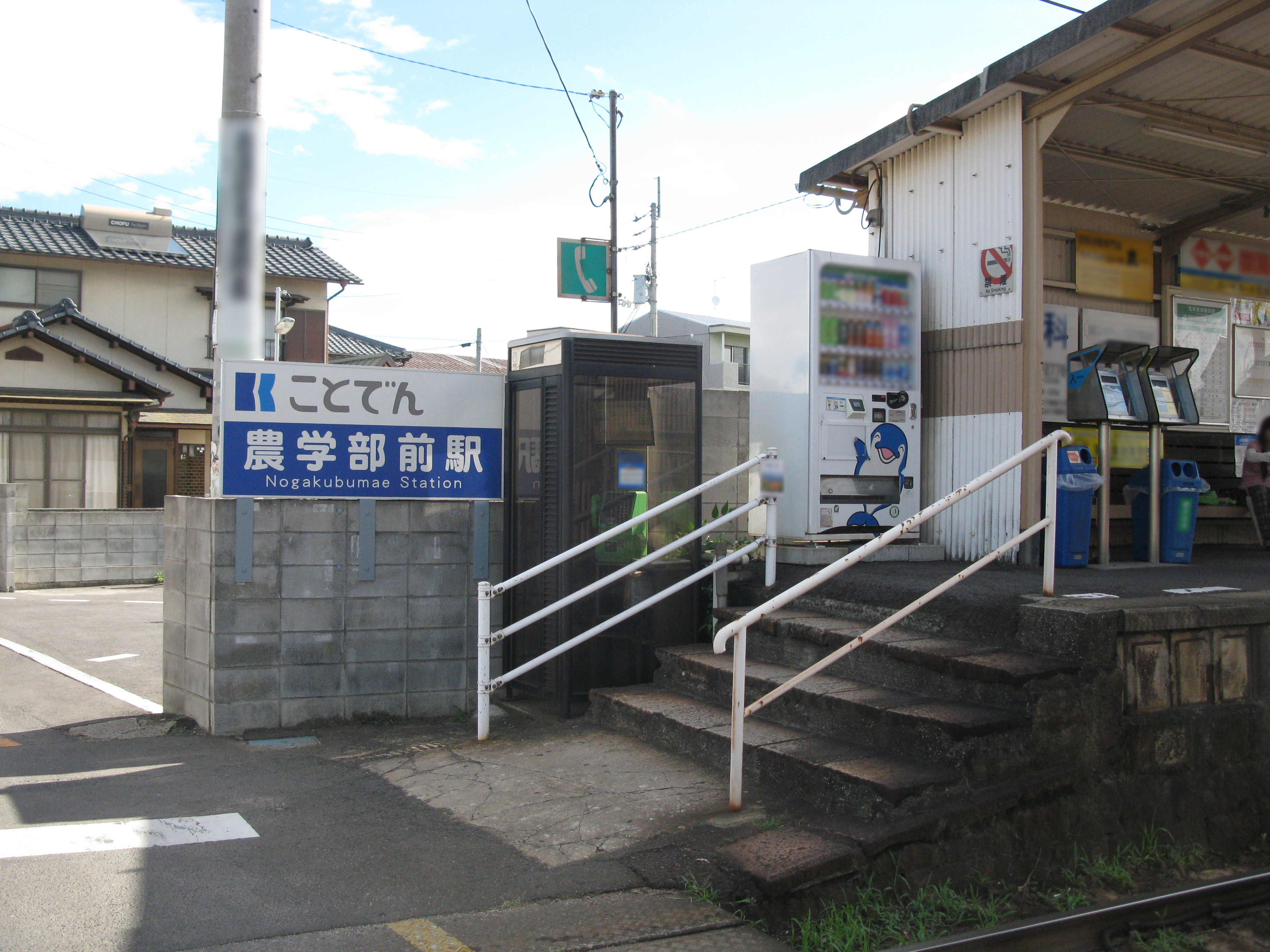 Nōgakubumae Station entrance (Takamatsu-Kotohira Electric Railroad(Kotoden) Nagao Line)